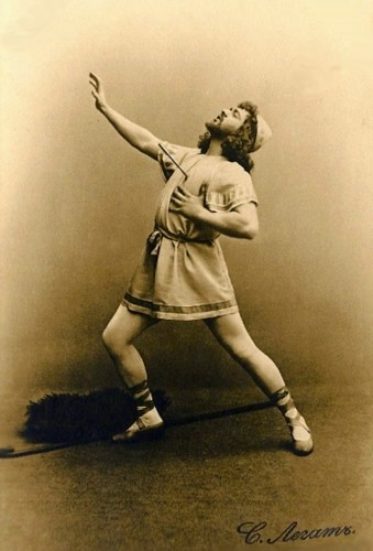 Photo of the dancer Sergei Legat (1875-1905) as the shepherd Aminta in Lev Ivanov and Pavel Gerdt's revival of the choreographer Louis Méranté (1828-1887) and the composer Léo Delibes' (1836-1901) 1876 ballet "Sylvia".